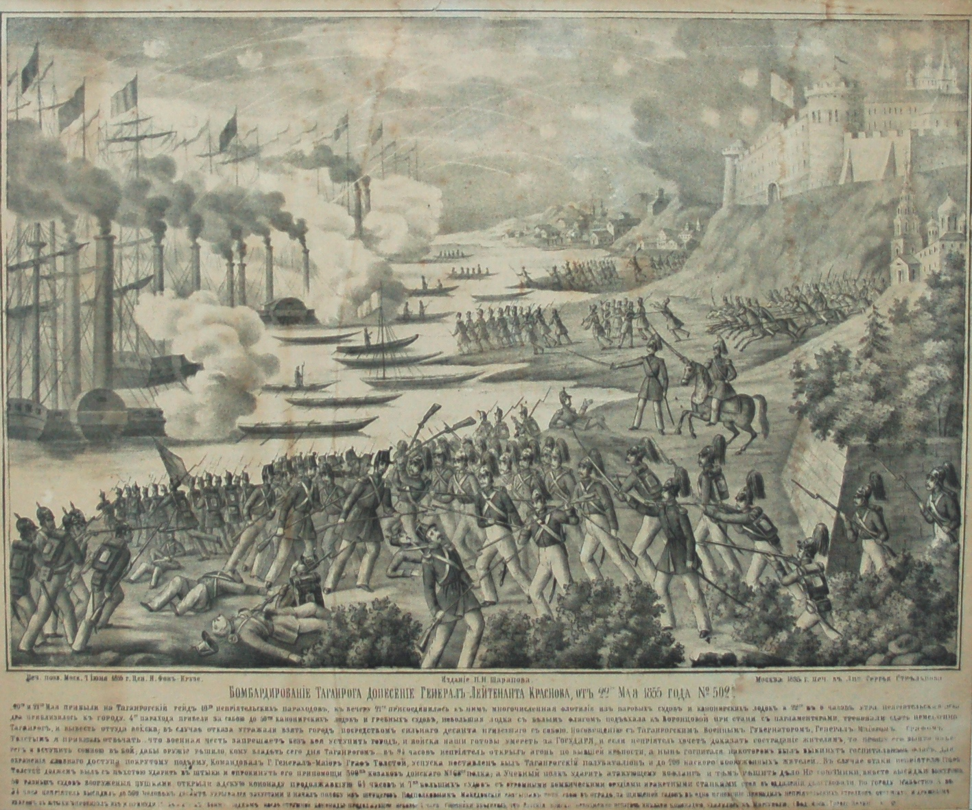 Russian engraving showing the first siege attempt (dated May 22, 1855) by the British and French